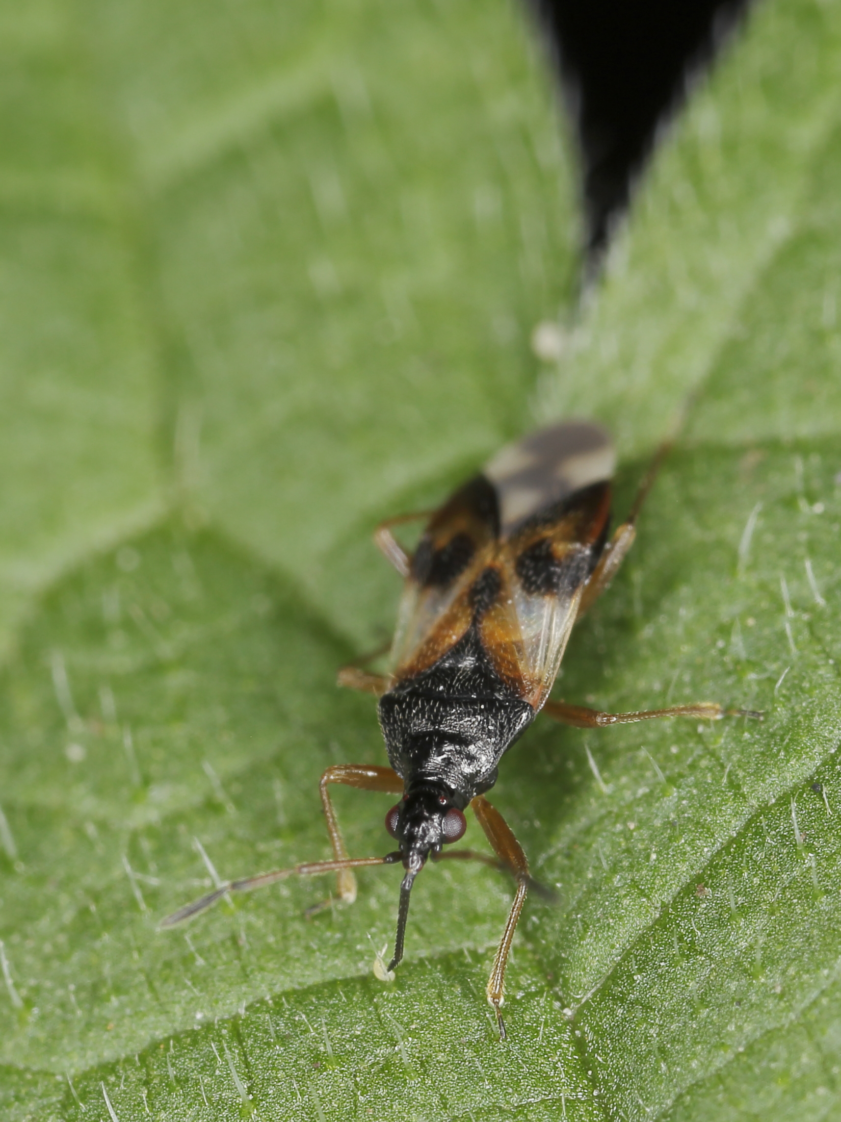 L: 3.5-4.5 mm Phylum: Arthropoda Subphylum: Hexapoda Class: Insecta (insects, Insekten) Subclass: Pterygota (Fluginsekten) Order: Hemiptera (true bugs, Schnabelkerfe) Suborder: Heteroptera (true bugs, Wanzen) Infraorder: Cimicomorpha LESTON, PENDERGRAST & SOUTHWOOD, 1954 Superfamily: Cimicoidea Family: Anthocoridae AMYOT & SERVILLE, 1843 (flower bugs or minute pirate bugs, Blumenwanzen) Subfamily: Anthocorinae FIEBER, 1837 Tribus: Anthocorini FIEBER, 1837 Genus: Anthocoris FALLÉN, 1814 Anthocoris nemorum LINNAEUS, 1761 Germany, Berlin: Hasenheide (park), ca. 50m asl., 29.08.2013 IMG_2554